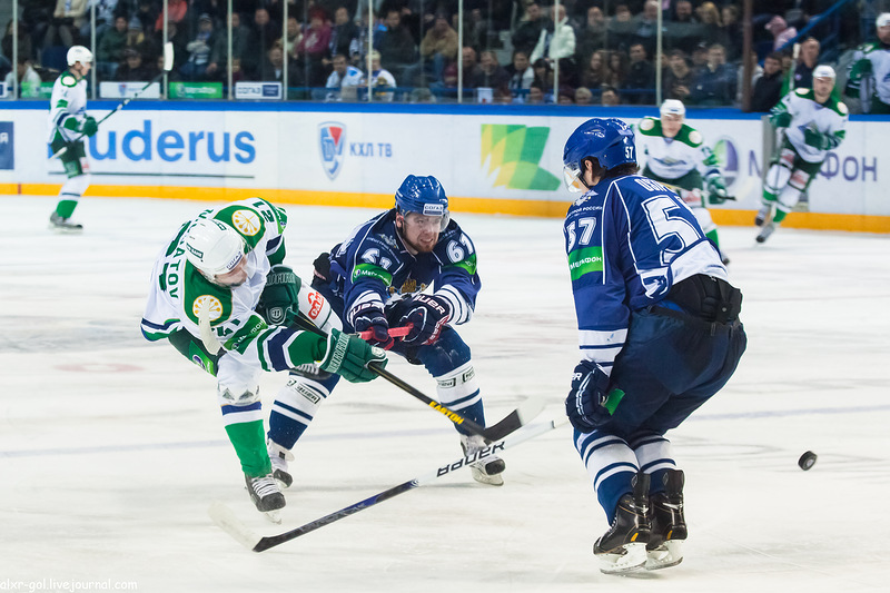 KHL game Amur Khabarovsk vs. Salavat Yulaev Ufa on October 23, 2012. Salavat Yulaev forward Igor Musatov shoots the puck as Andrei Stepanov tries to hinder him. Defenceman Alexander Osipov blocks.